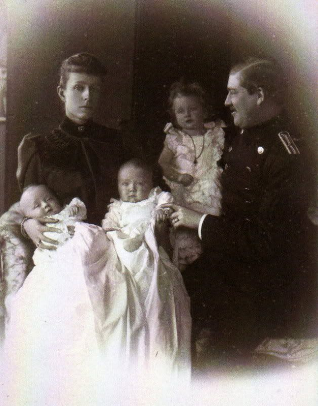 William, Prince of Hohenzollern with his wife and their children